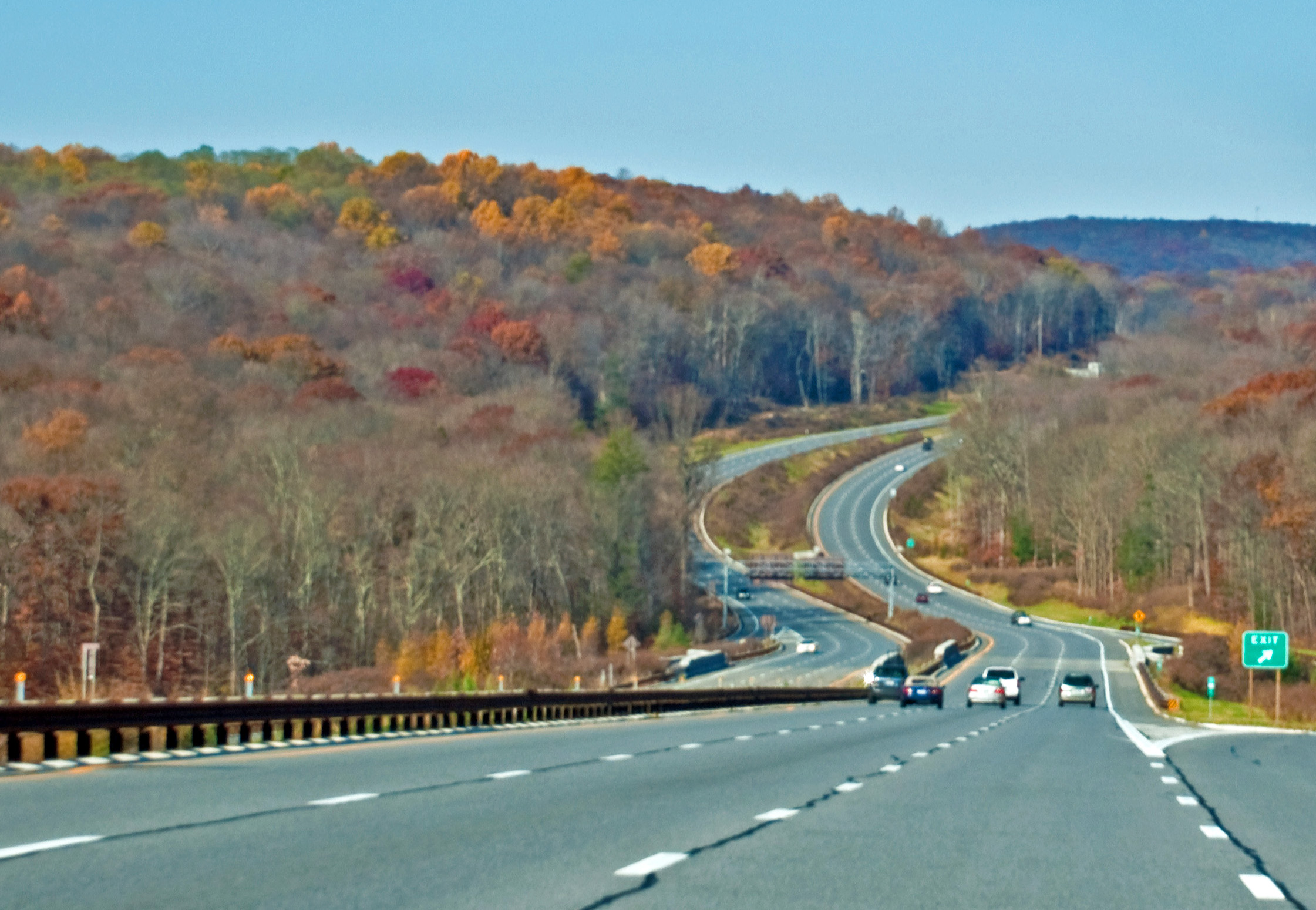 Taconic Parkway, New York, 7 Nov. 2009